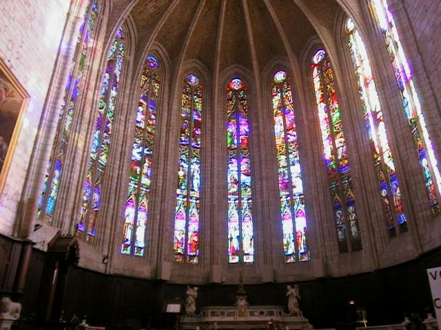 Stained glasses of Saint Fulcran Cathedral, Lodeve, Herault, France.